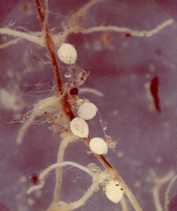 Heterodera avenae cysts